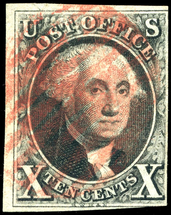 United States 10-cent postage stamp of 1847